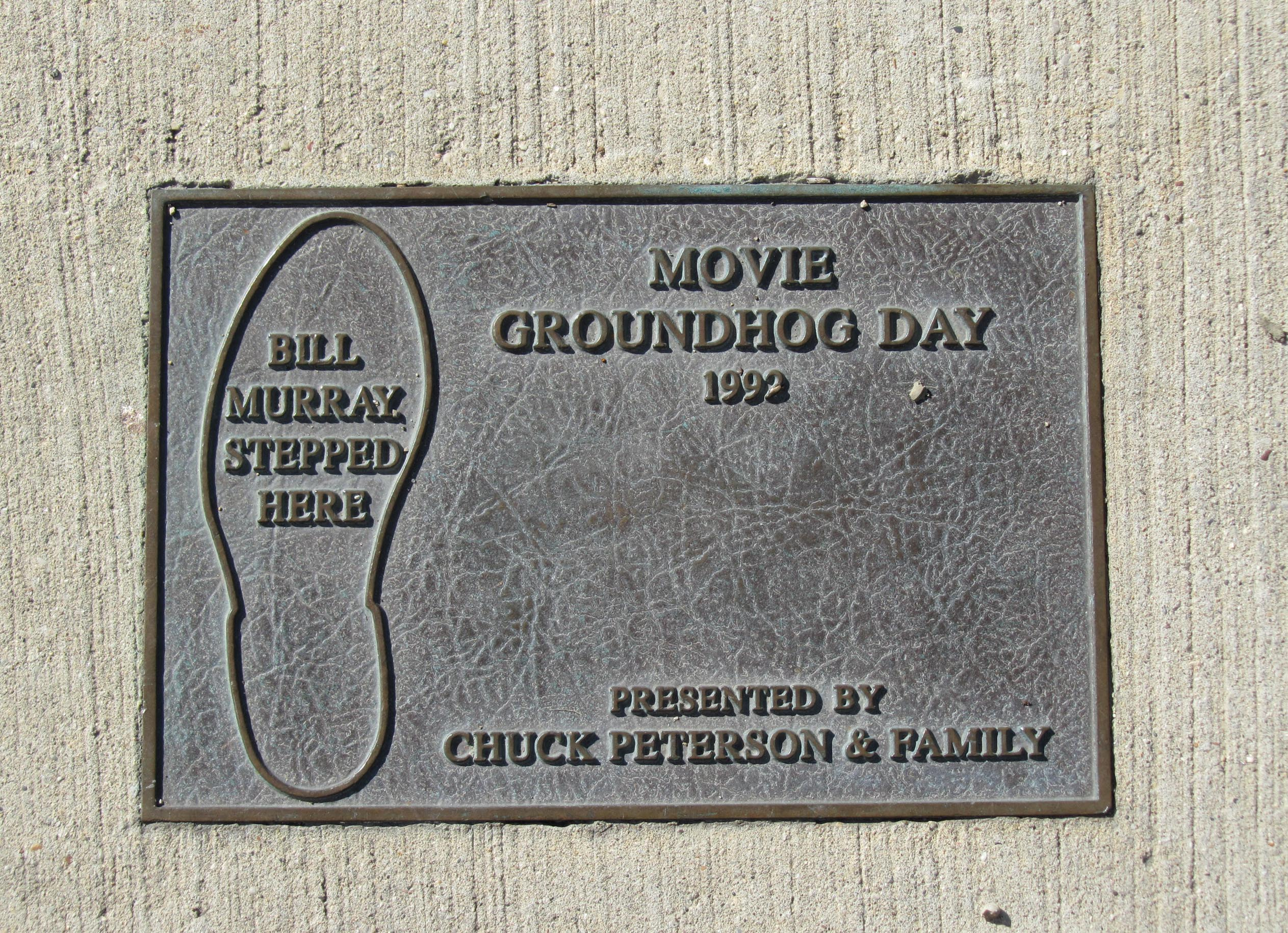 Official Plaque of Movie(Groundhog day) Woodstock, IL